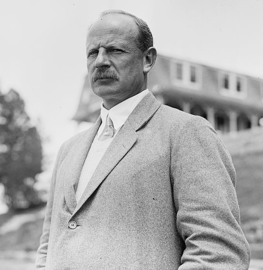 Guy Nickalls circa 1915 Bain News Service,, publisher. Guy Nickalls [between ca. 1910 and ca. 1915] 1 negative : glass ; 5 x 7 in. or smaller. Notes: Title from unverified data provided by the Bain News Service on the negatives or caption cards. Forms part of: George Grantham Bain Collection (Library of Congress). Format: Glass negatives. Repository: Library of Congress, Prints and Photographs Division, Washington, D.C. 20540 USA, General information about the Bain Collection is available at Persistent URL: Call Number: LC-B2- 3097-1